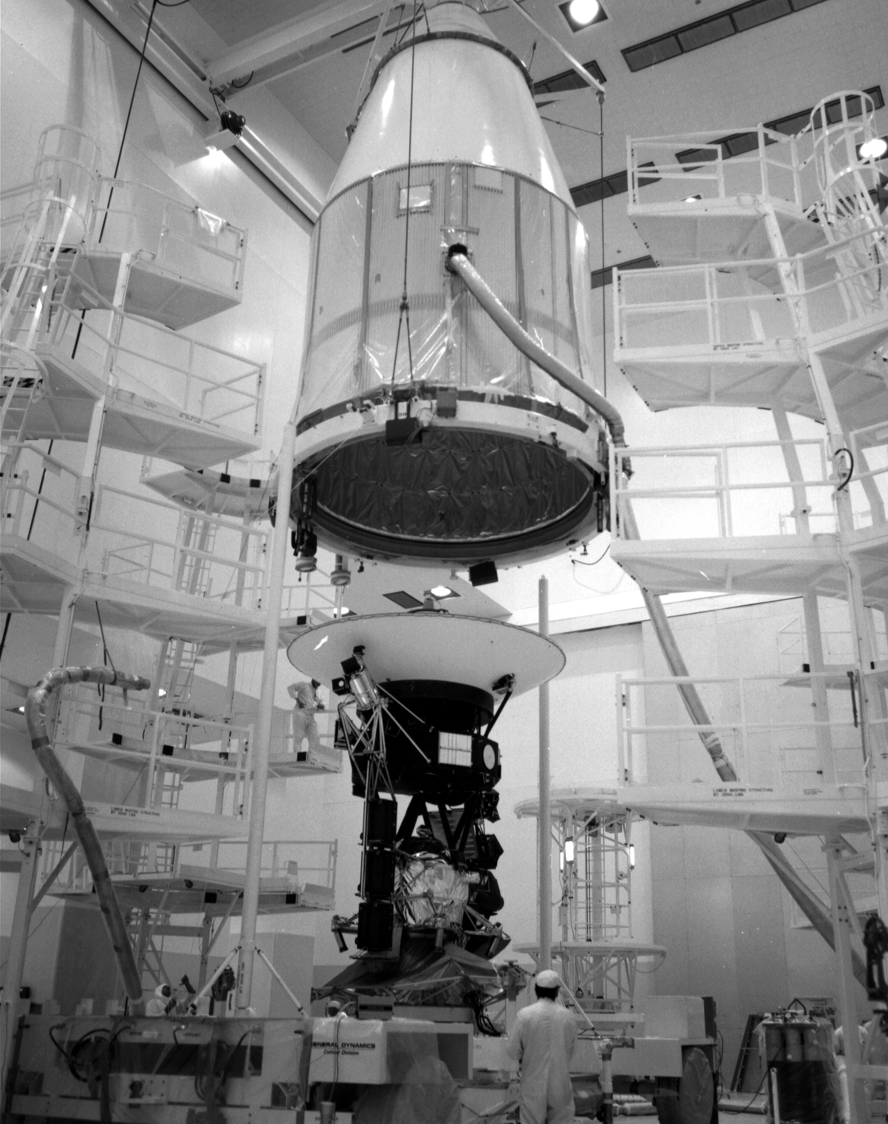 The 1800 pound heavy Voyager 2 spaceprobe is encapsulated for the launch to the planets Jupiter and Saturn. Later the mission was extended to the planets Uranus and Neptun